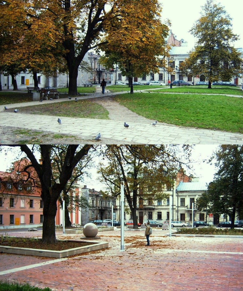 Water Market square in the Old Town in Zamość - before (2009) and after (2010) repair.